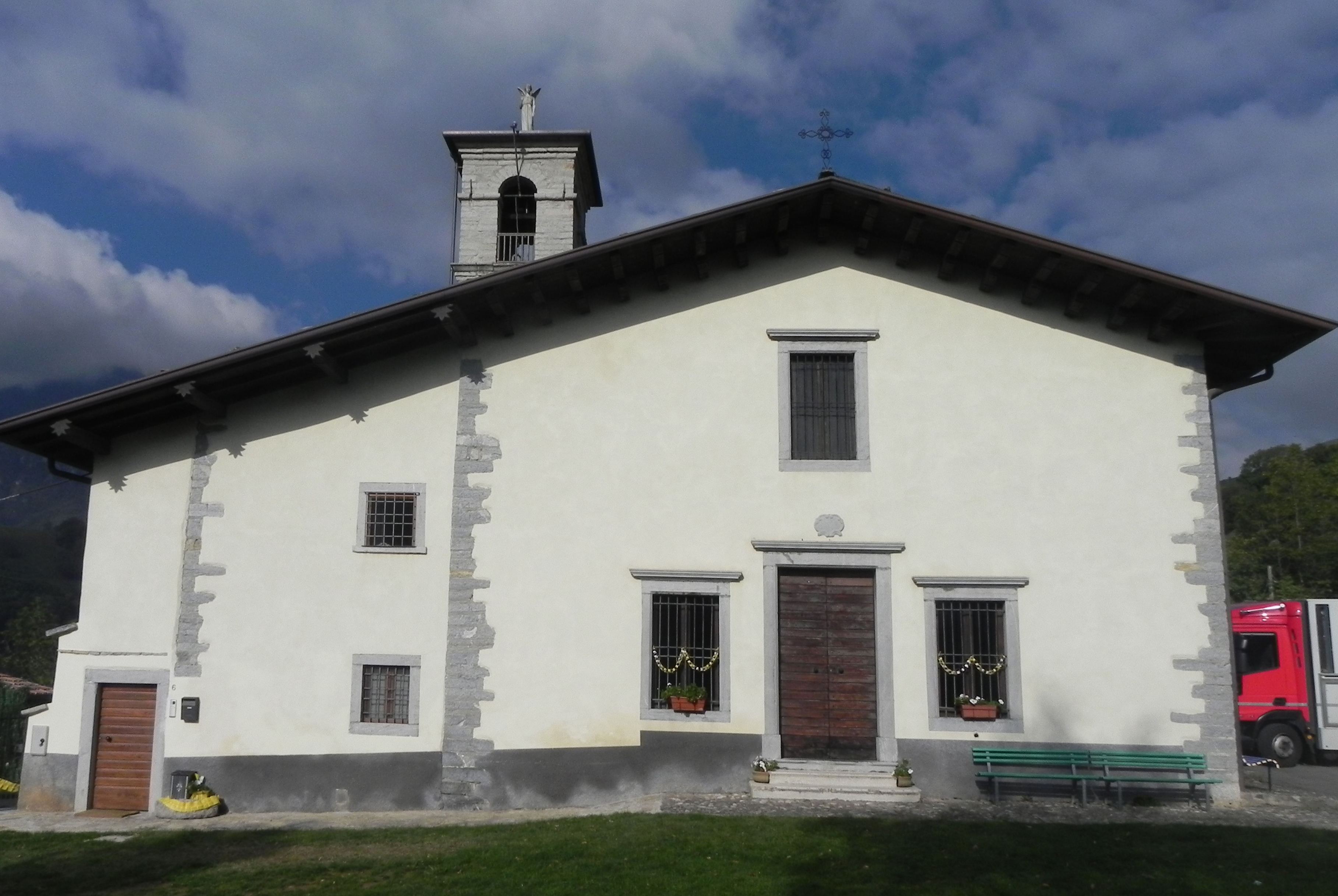 Church of the Holy Trinity - XVI cent. - Gorno (BG) Italy